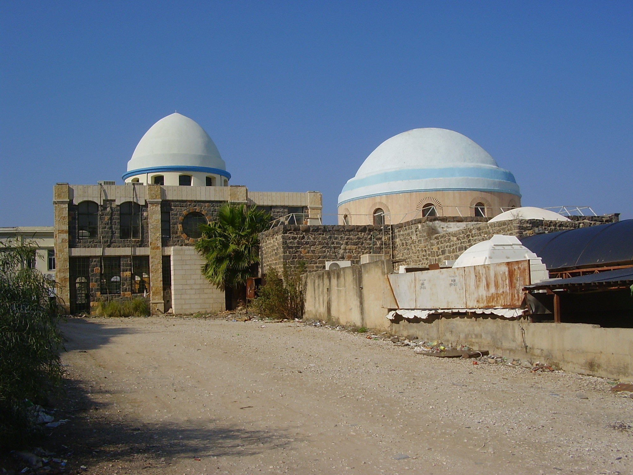 tomb of rabbi meir in tiberias